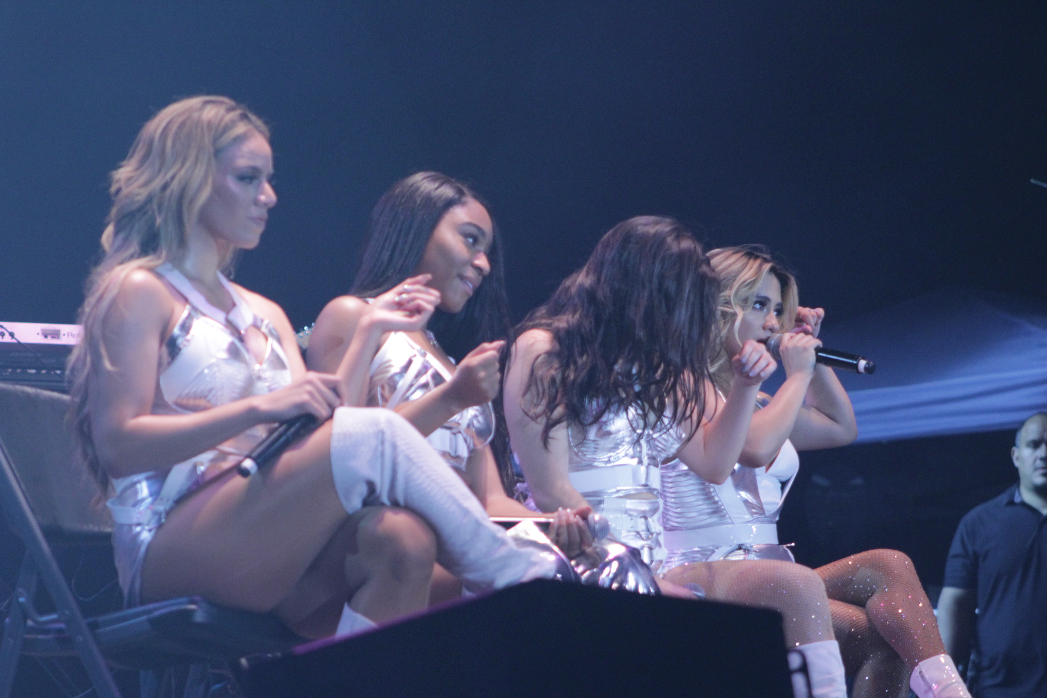 Fifth Harmony (Lauren Jauregui, Normani Kordei, Dinah Jane Hansen, Ally Brooke Hernandez) perform at the Los Angeles County Fair in Pomona, Ca. on Sep. 15, 2017. Taken by Dominique Redfearn